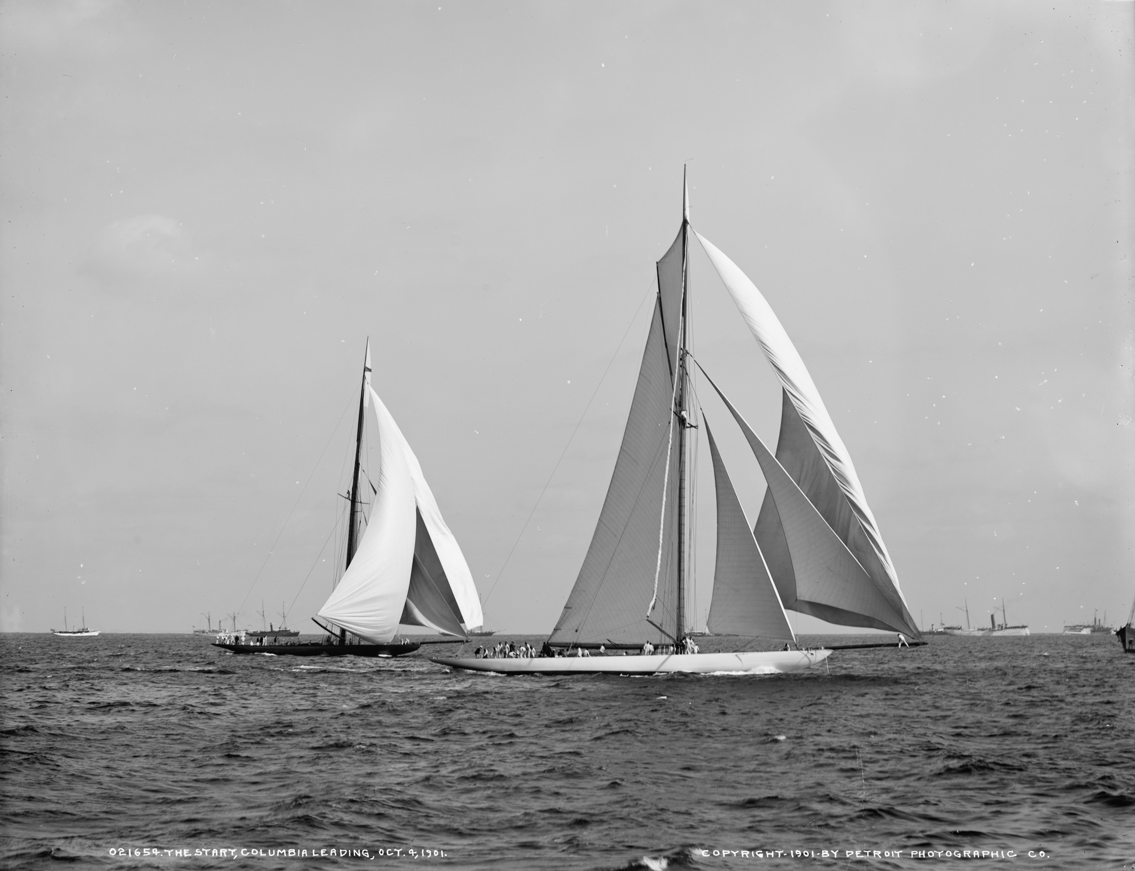 The America's Cup defender Columbia leading the challenger Shamrock II at the start, August 4th, 1901